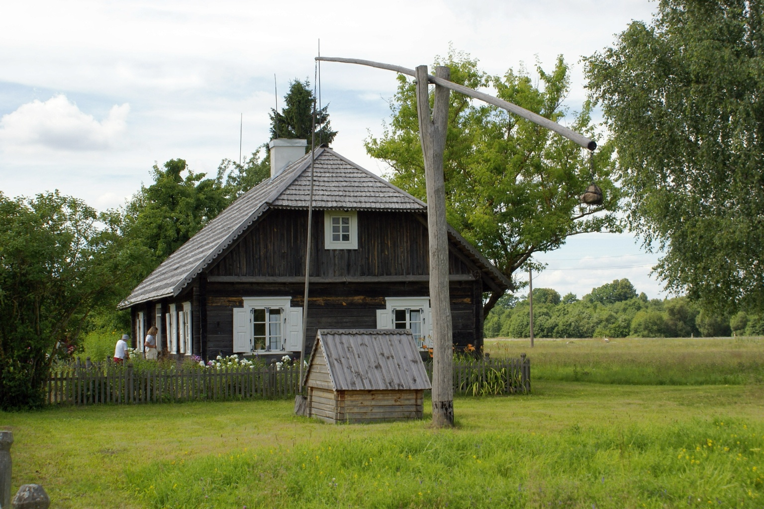 Native home of Lithuanian poet Maironis, then at Bernaty, Rossienski Uyezd, Kovno Governorate, Russia; now in Bernotai, Raseiniai Rayon, Kaunas Region, Lithuania.